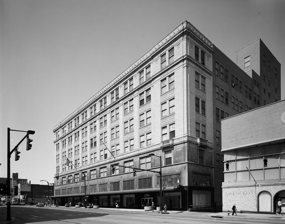 M. O'Neil Company, 226 South Main Street, Akron, Summit County, Ohio - view southwest showing north and east (front) elevations.